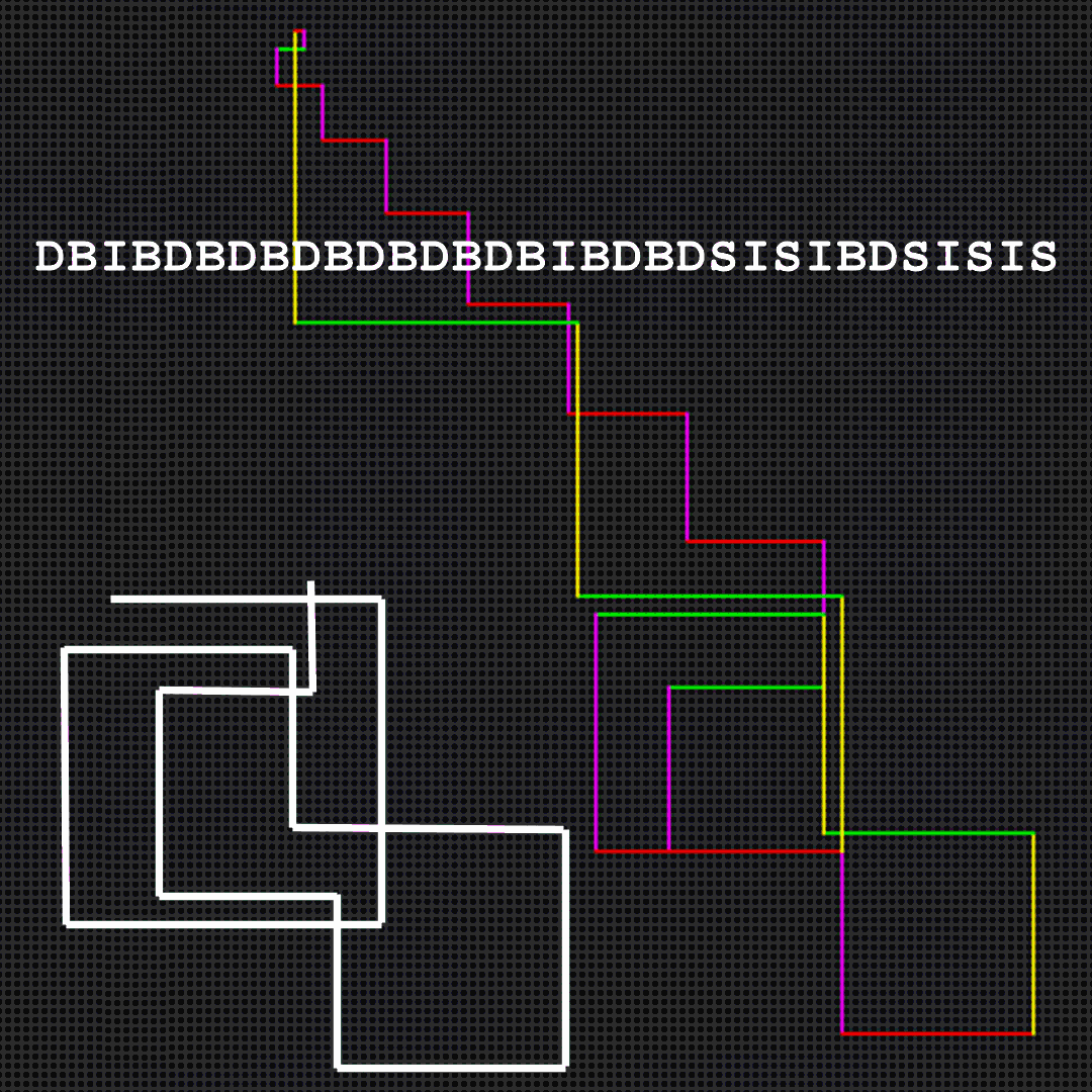 32-segments Golygon, created from anoted sequence in owner image. Each direction has been colored a different color. Some segments overlap, to the right in white you can follow the traced line. Leyend: D=Right, B=Down, I=Left, S=Up